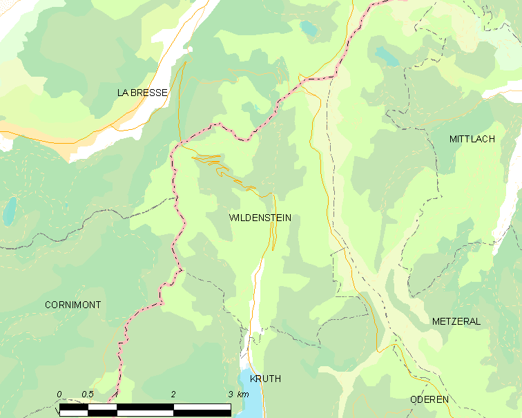 Map of French municipality